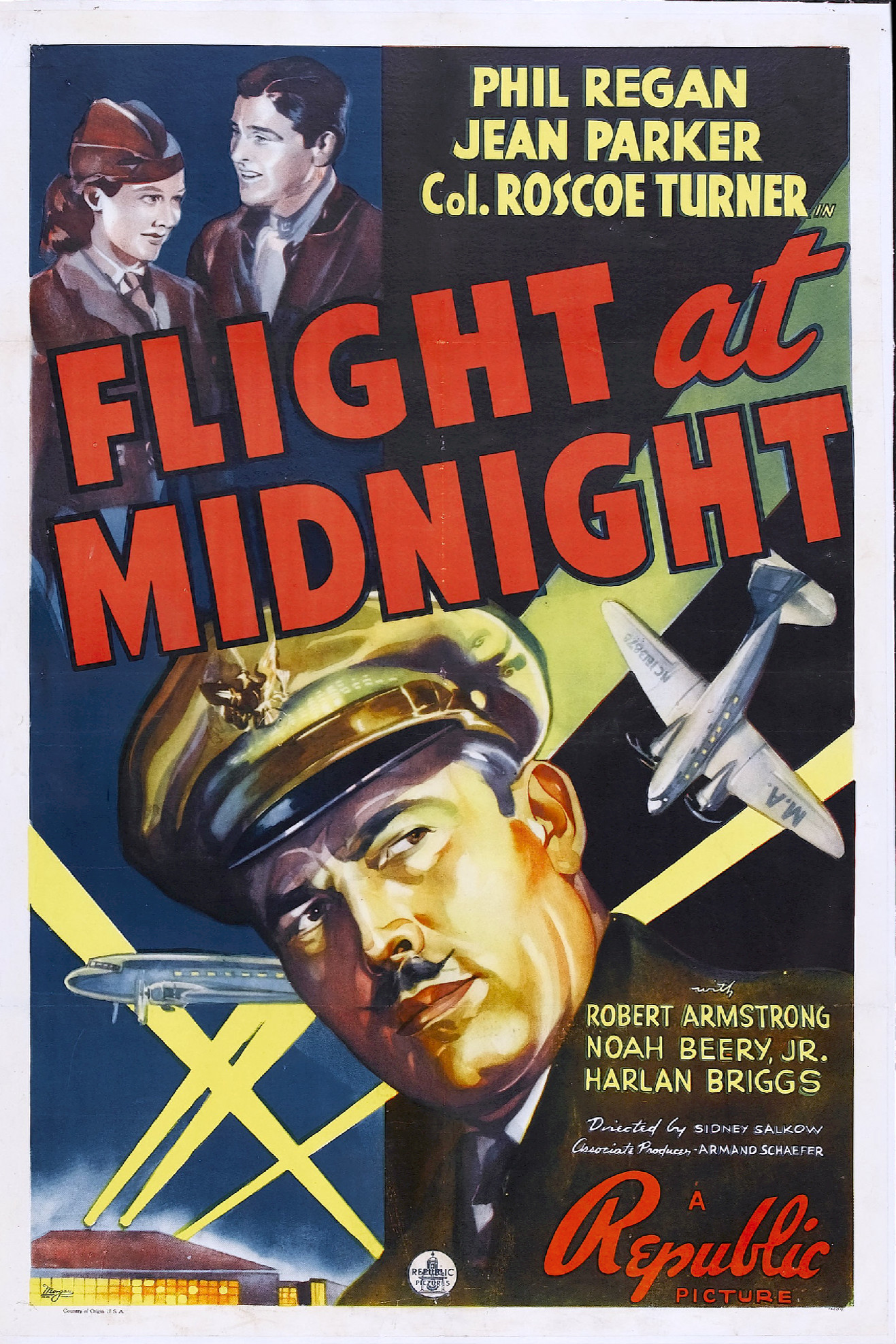 Poster for the 1939 film Flight at Midnight. There are no copyright marks. At bottom left is Country of origin USA. At bottom right are numbers-looks like 18234.